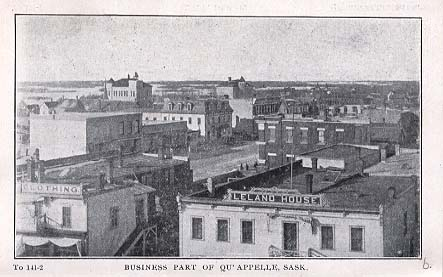 Postcard views of the Qu'Appelle Valley: The once-thriving business district of Qu'Appelle, circa 1900, photograph taken from one of the half-dozen grain elevators which once lined the CPR tracks adjacent to the former train station. Note Queen's Hotel on Main Street (with mansard roof) and Qu'Appelle High School and Qu'Appelle Town Hall on horizon. Copyright expired in Canada. As a pre-1946 Canadian image, also PD in the U.S.